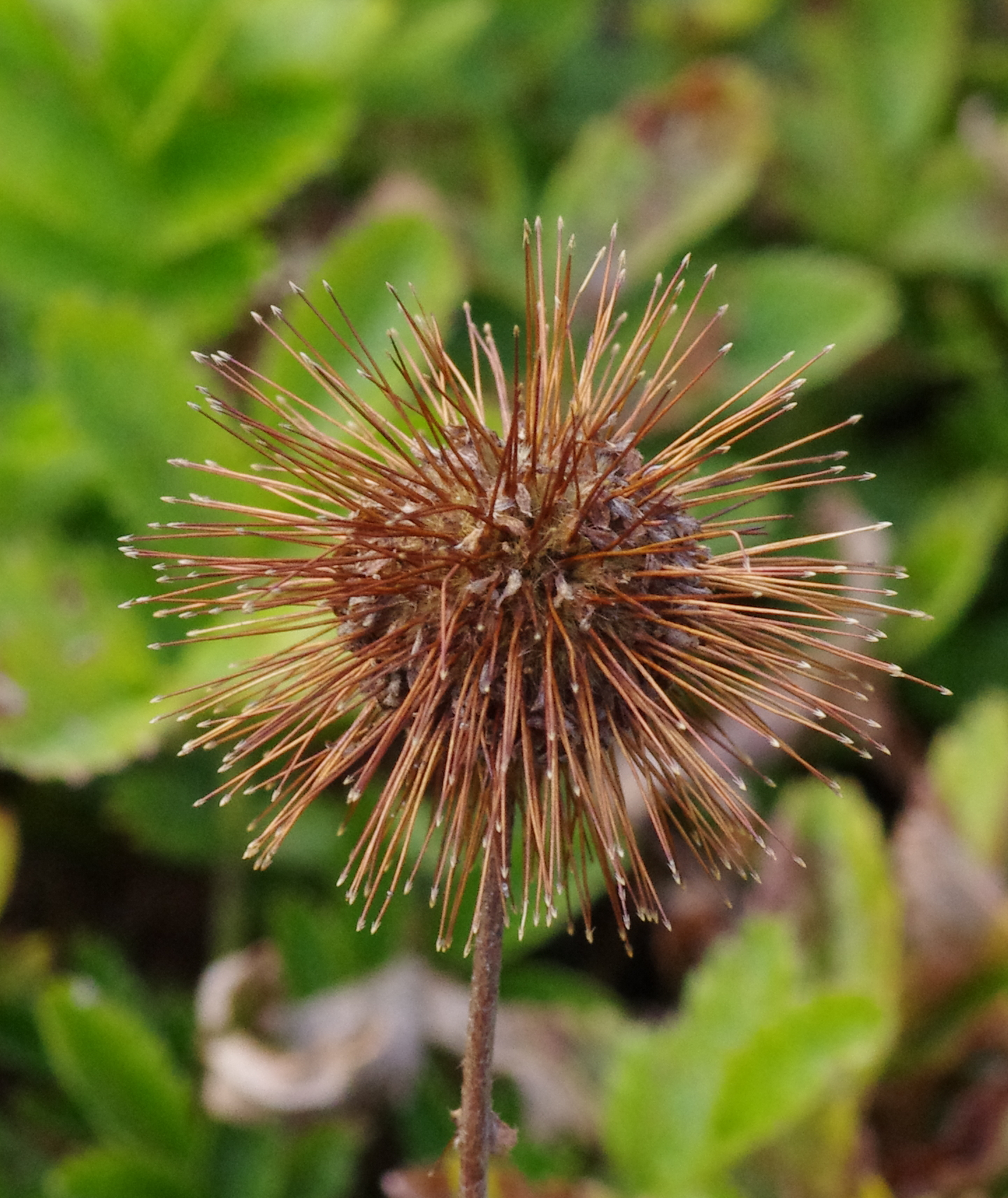 Acaena magellanica at the ÖBG Bayreuth